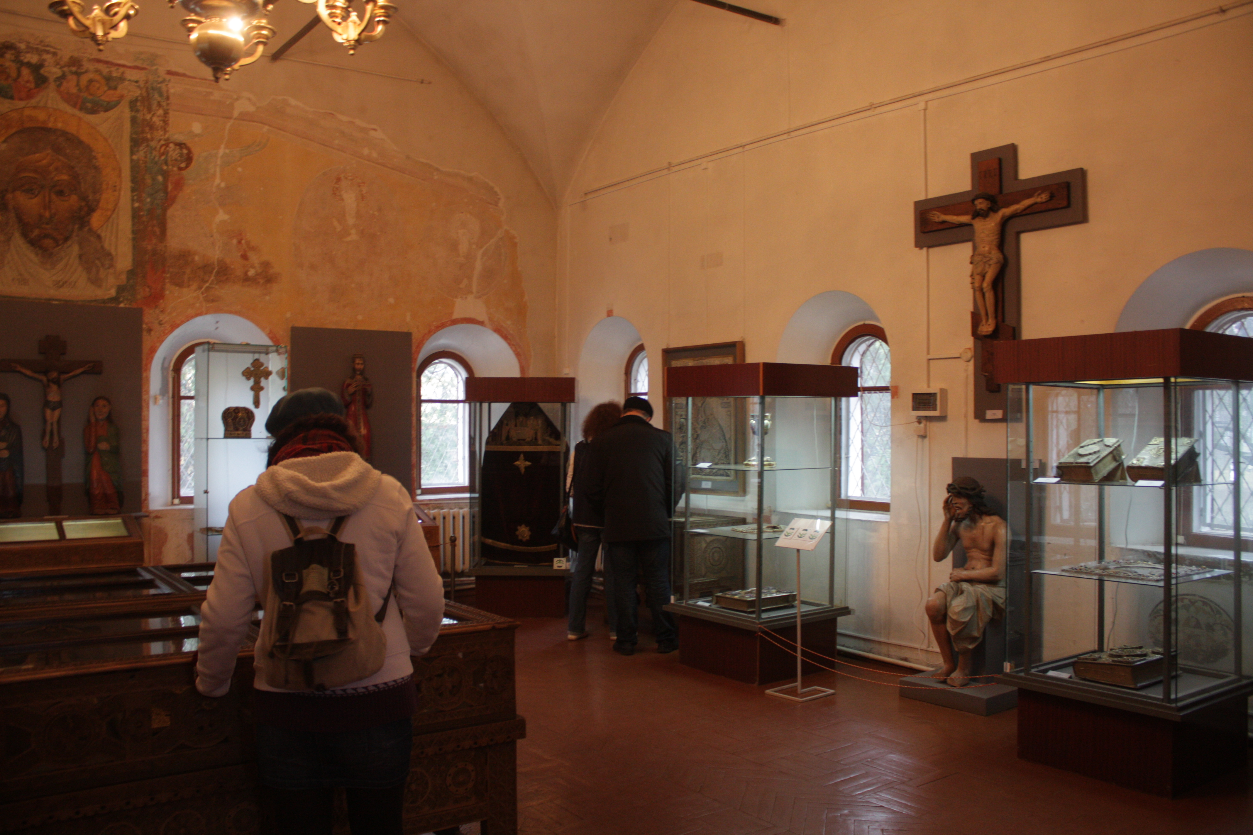 Interior of the Palace of Uglich princes (currently a museum)